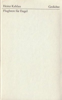 Book cover of Heinz Kahlau "Flugbrett für Engel" 1974